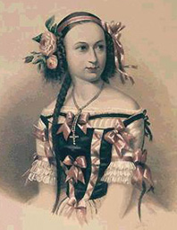 Photograph of the Russian ballerina Elena Andreyanova (1819 - 1957) c1840s